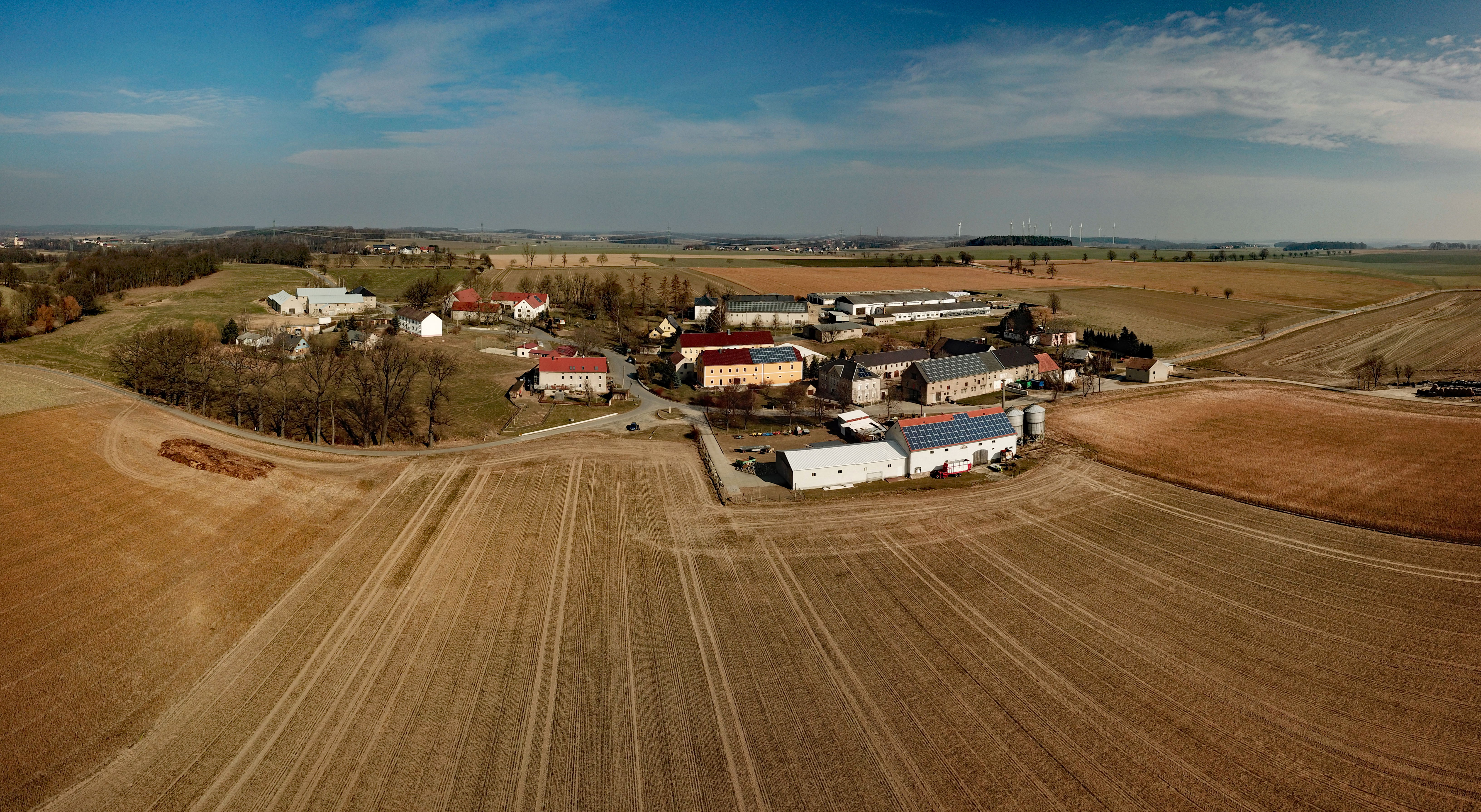 Nucknitz (Crostwitz, Saxony, Germany) Hornjoserbsce: Powětrowy wobraz Nuknicy